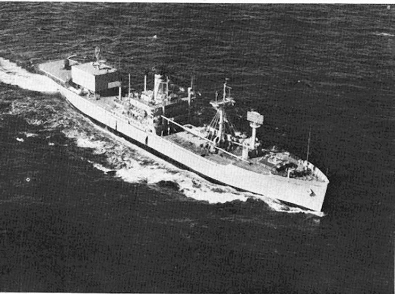 USNS Haiti Victory (T-AK-238) underway. This photo shows Haiti Victory in her AGM (range instrumentation ship) configuration, but at the time of the photo was still carrying her AK (cargo ship) designation.